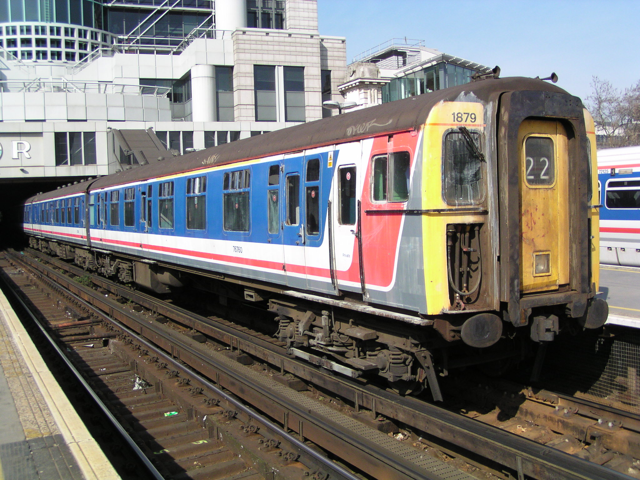 This image was copied from (Image:1879 at London Charing Cross.jpg). The original description was: ---- BR Class 421, no. 1879 at Charing Cross on 18th March 2003, with a service to Hastings. This unit was operated by Connex South Eastern, and is painted in Network SouthEast livery. This unit has since been withdrawn from traffic and scrapped.